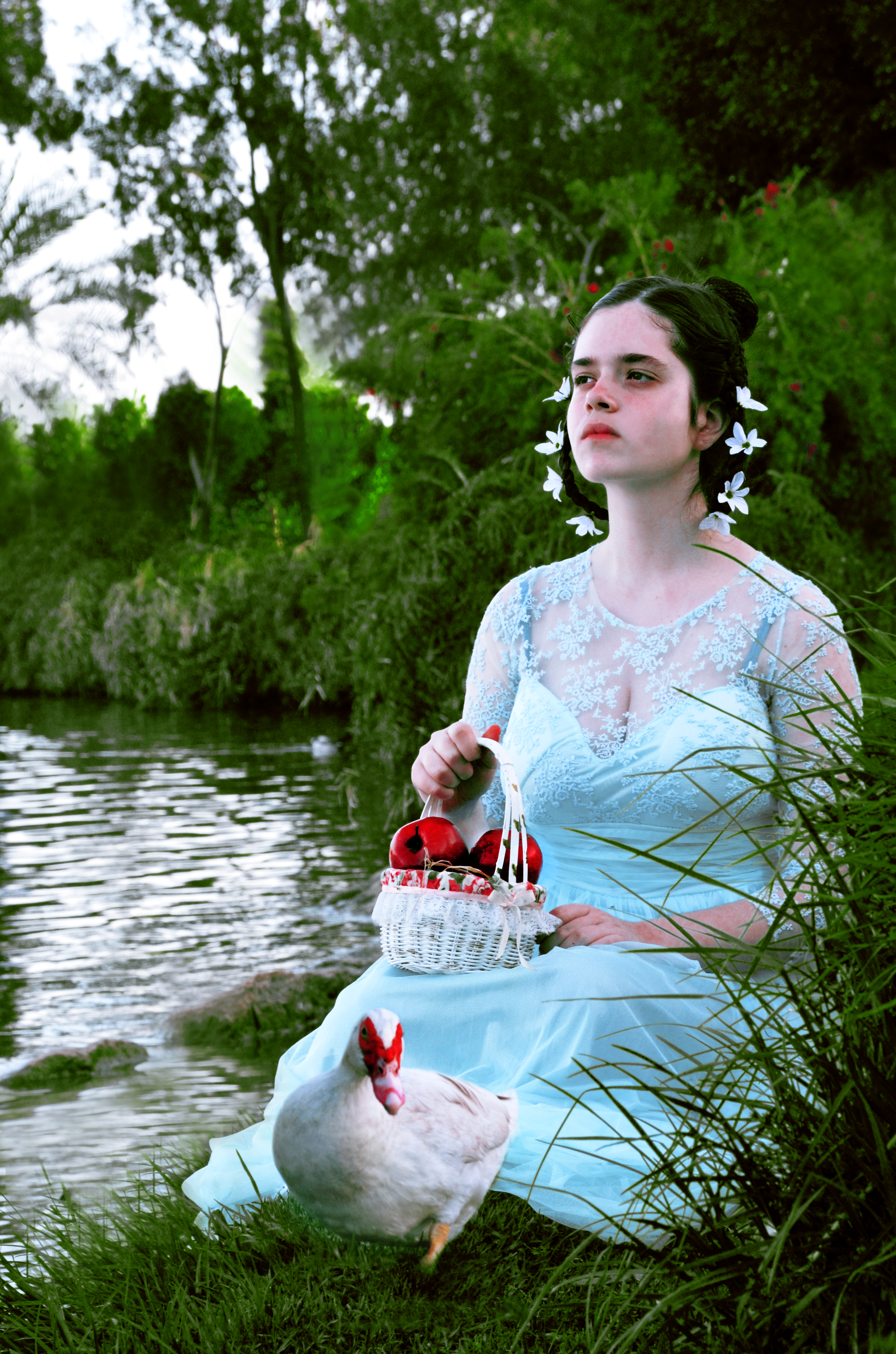 Vintage, Art of Israel